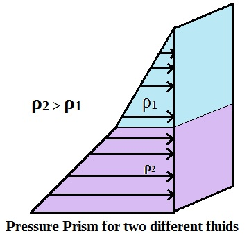 Pressure Prism for volume containing two different fluids.